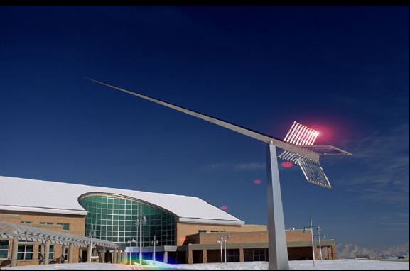 Solar Wind 2000 Stainless steel and polymer prisms Wind and light interactive. Utah Public Arts Program, Utah Arts Council, Salt Lake Community College. 65’ long, 28’ high, 15’ wide.